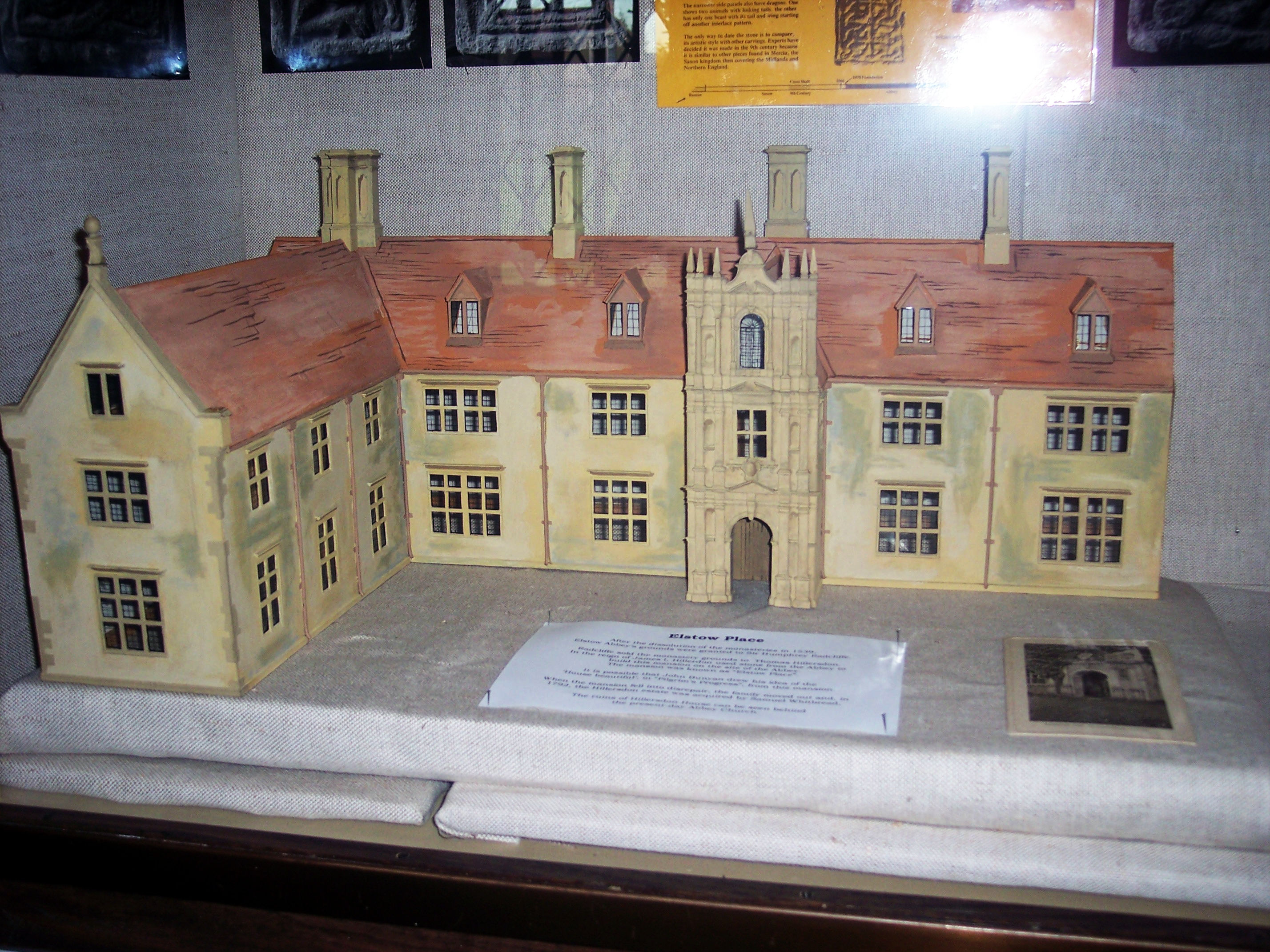 The mansion of Sir Thonas Hillersden, in Elstow.